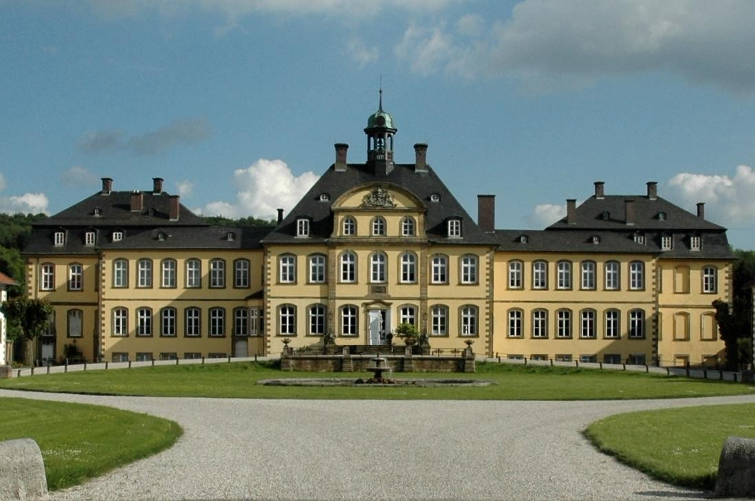 Castle of Söder in Holle, Lower Saxony, north-western aspect